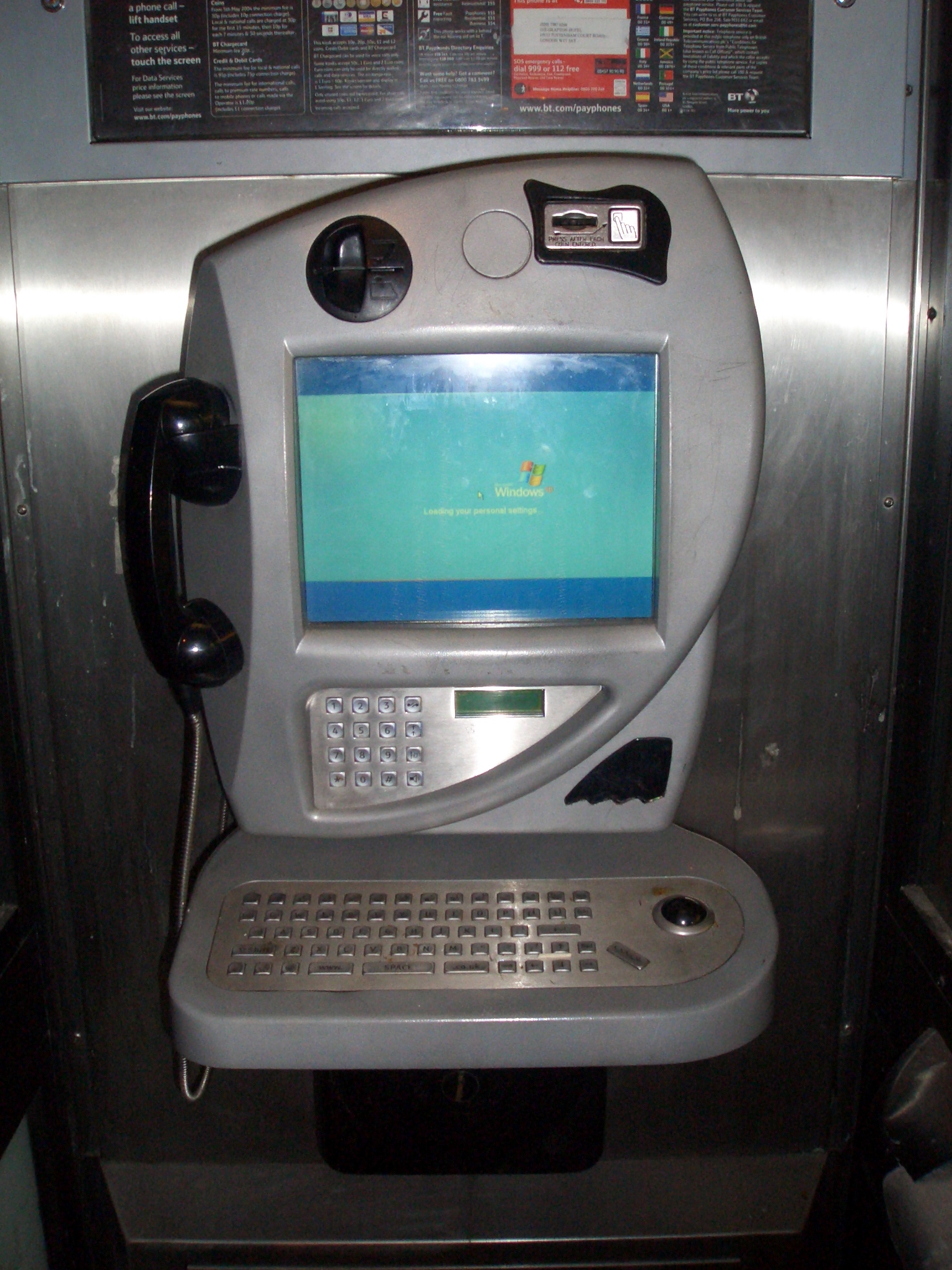 BT Marconi Neptune 800 internet payphone loading Microsoft Windows XP.